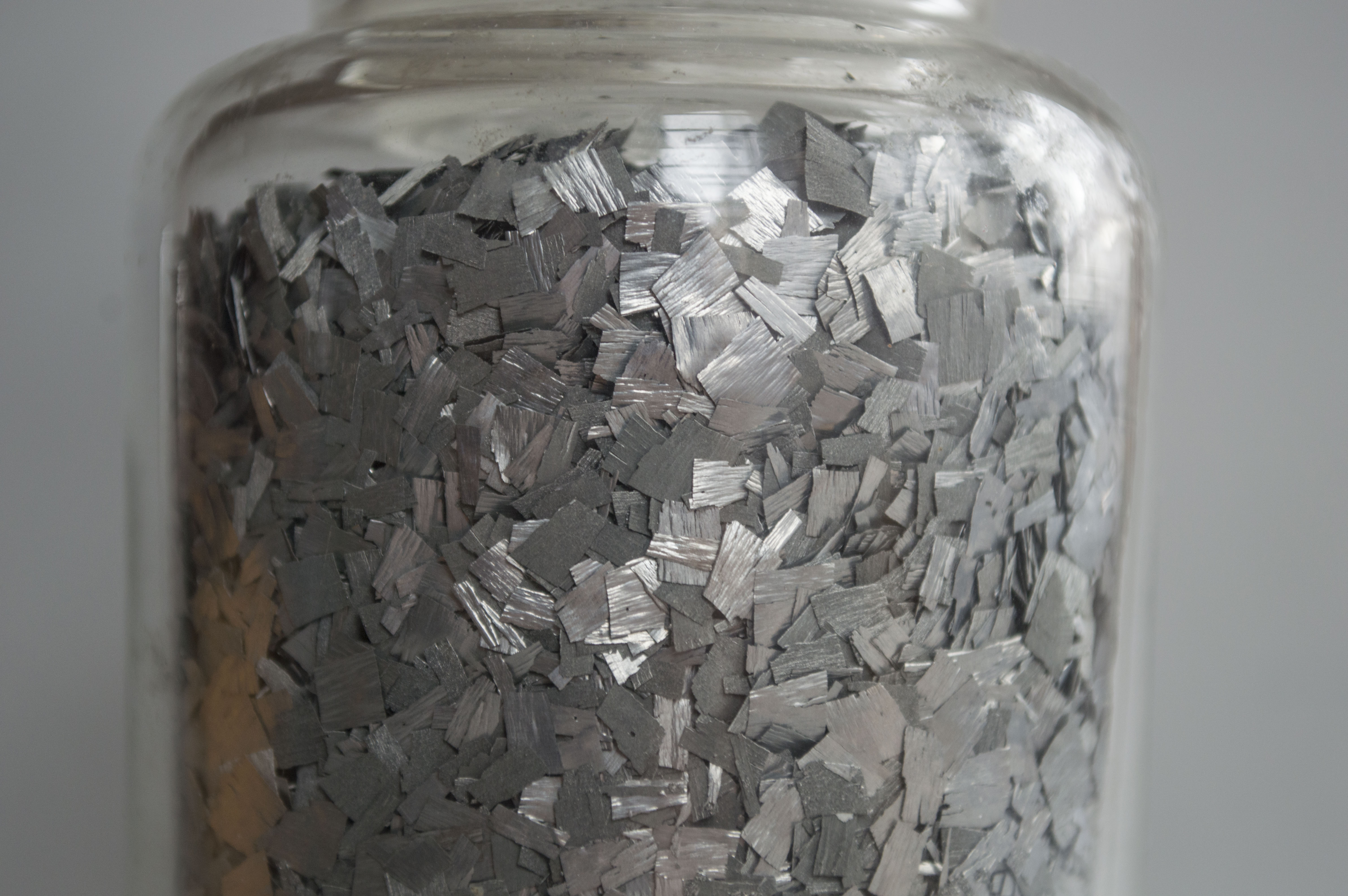 Silver amalgam by czech company Safina.